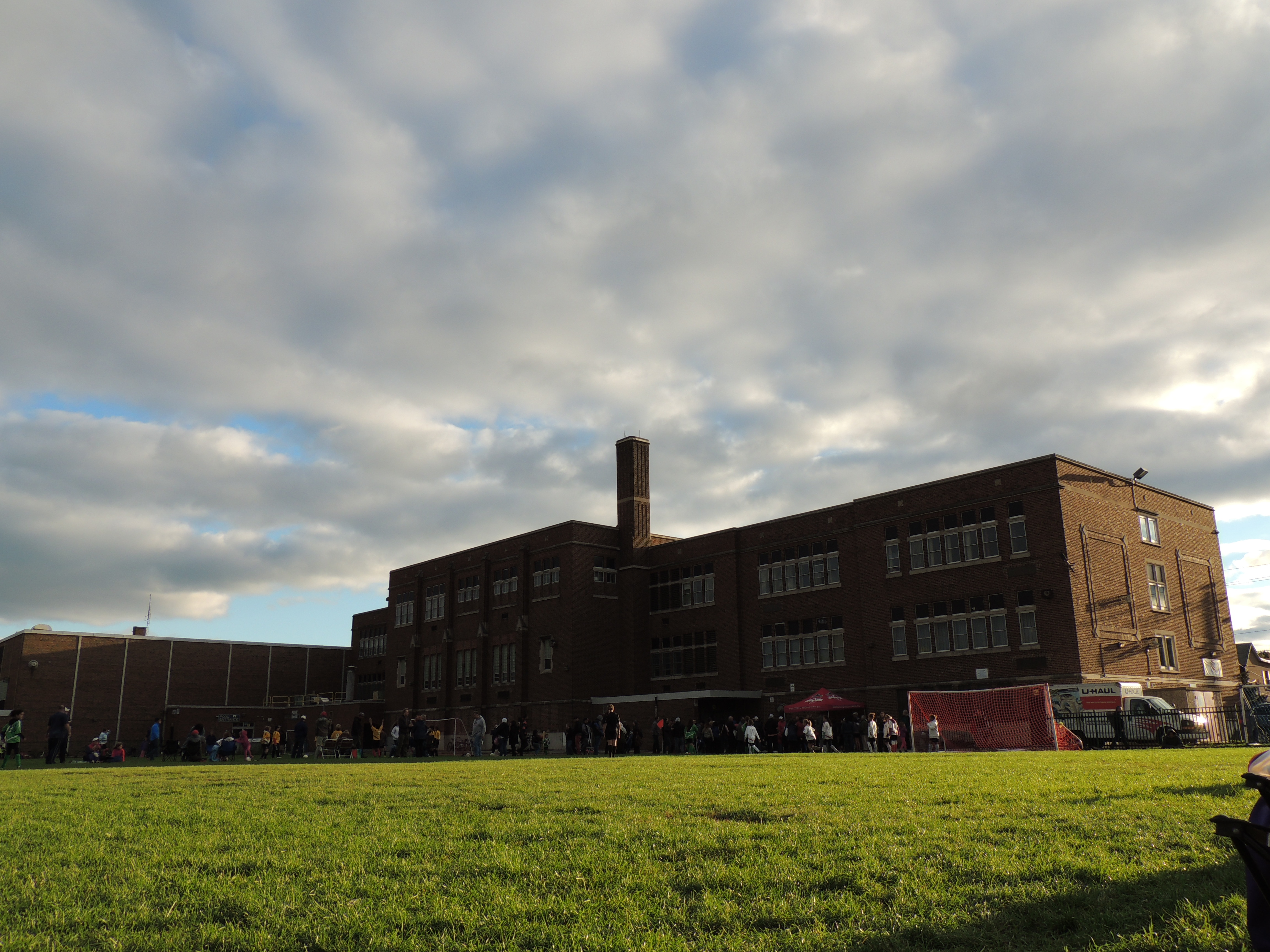 view of Runnymede Collegiate Institute in Toronto, Canada as seen from the north playing field